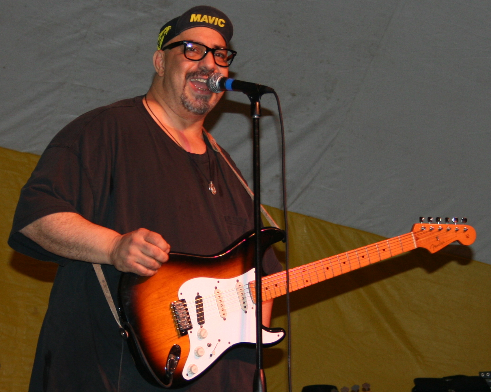 Pat DiNizio holding his Fender Stratocaster electric guitar at an outdoor concert of the Smithereens at the Mayo Civic Center in Rochester, Minnesota, United States